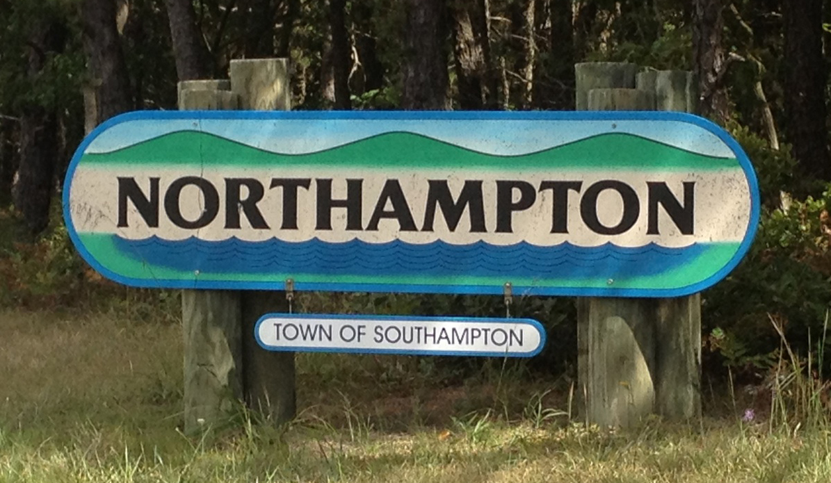 Northampton sign heading north on County Route 51 (Suffolk County, New York) into Northampton, Suffolk County, New York.